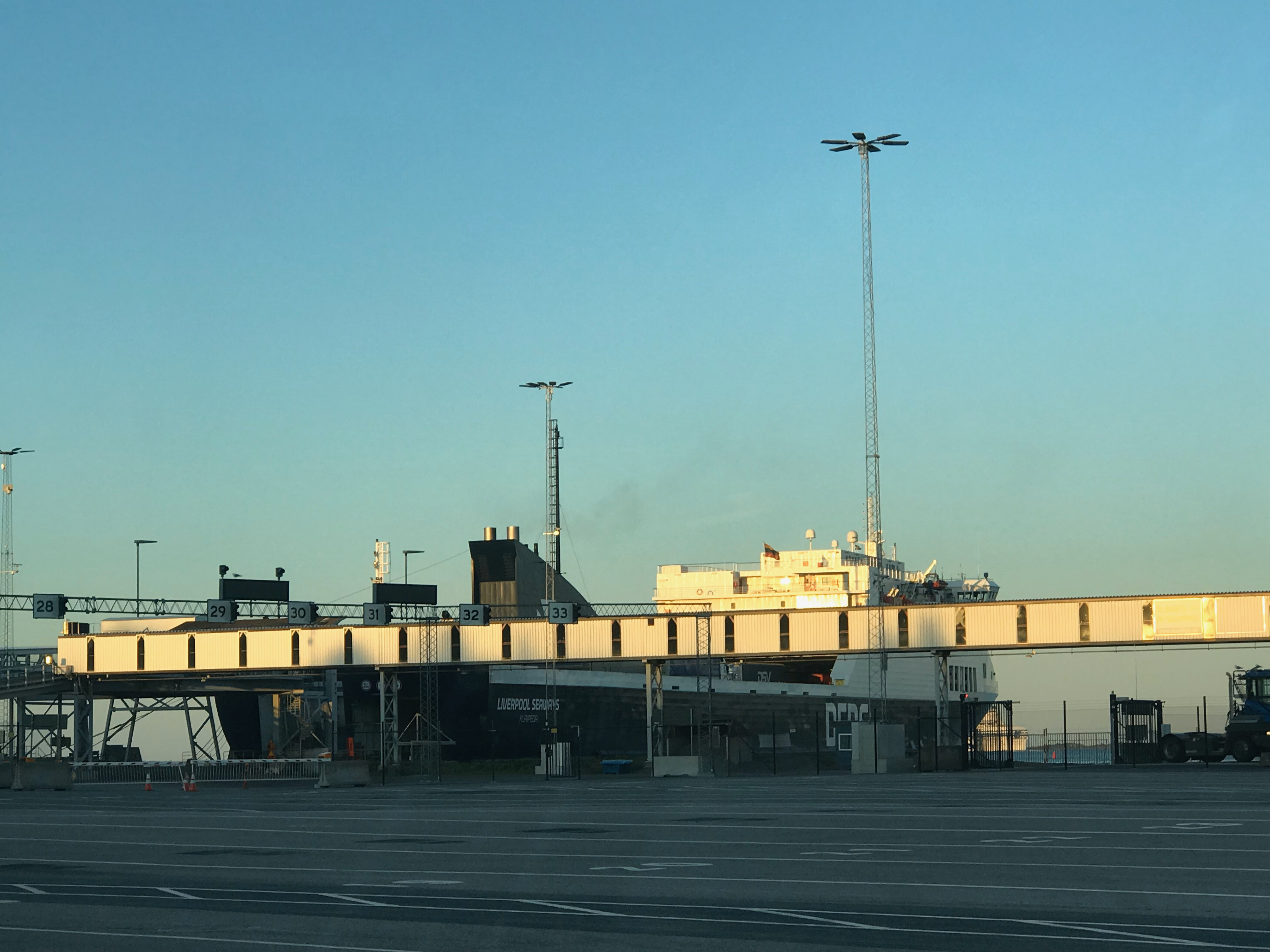 Kapellskär